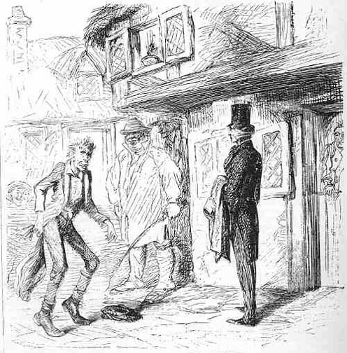 Great Expectations, Trabb's boy mocks Pip in the village highstreet, outside the post-office, by John McLenan.